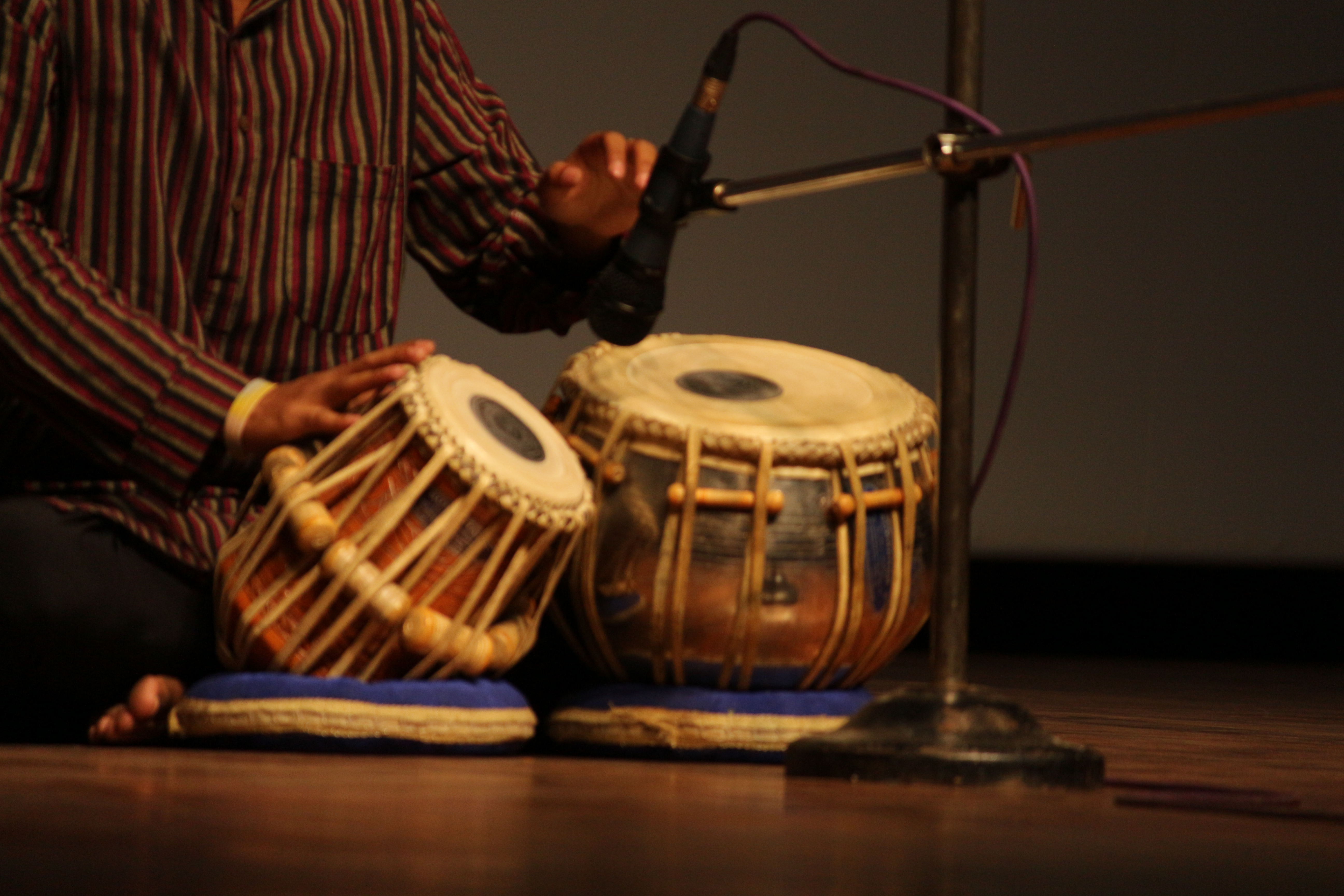 The tabla is a South Asian membranophone percussion instrument (similar to bongos) consisting of a pair of small drums. It has been a particularly important instrument in Hindustani classical music since the 18th century, and remains in use in India, Pakistan, Nepal, Bangladesh, and Sri Lanka. The name tabla likely comes from tabl, the Persian and Arabic word for drum. However, the ultimate origin of the musical instrument is contested by scholars, some tracing it to West Asia, others tracing it to the evolution of indigenous musical instruments of the Indian subcontinent.